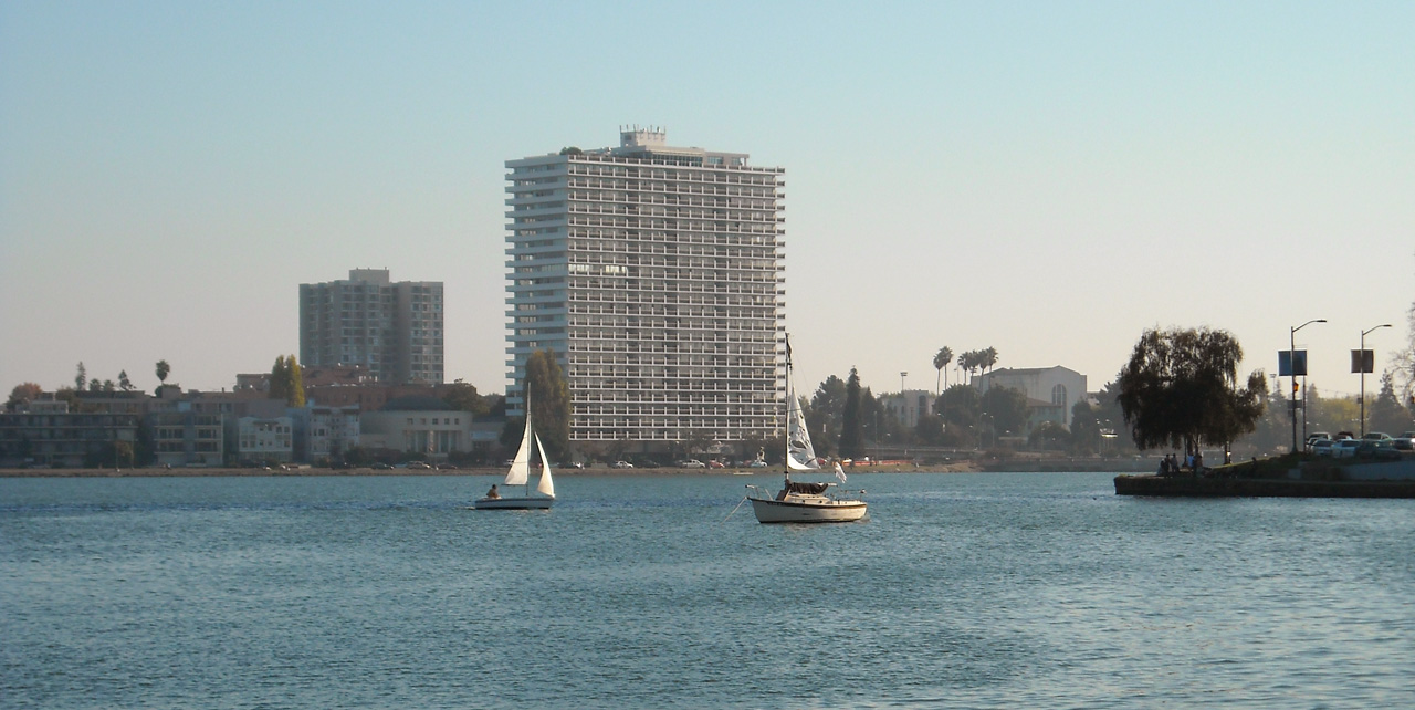 Lake Merritt, by Daniel Ramirez